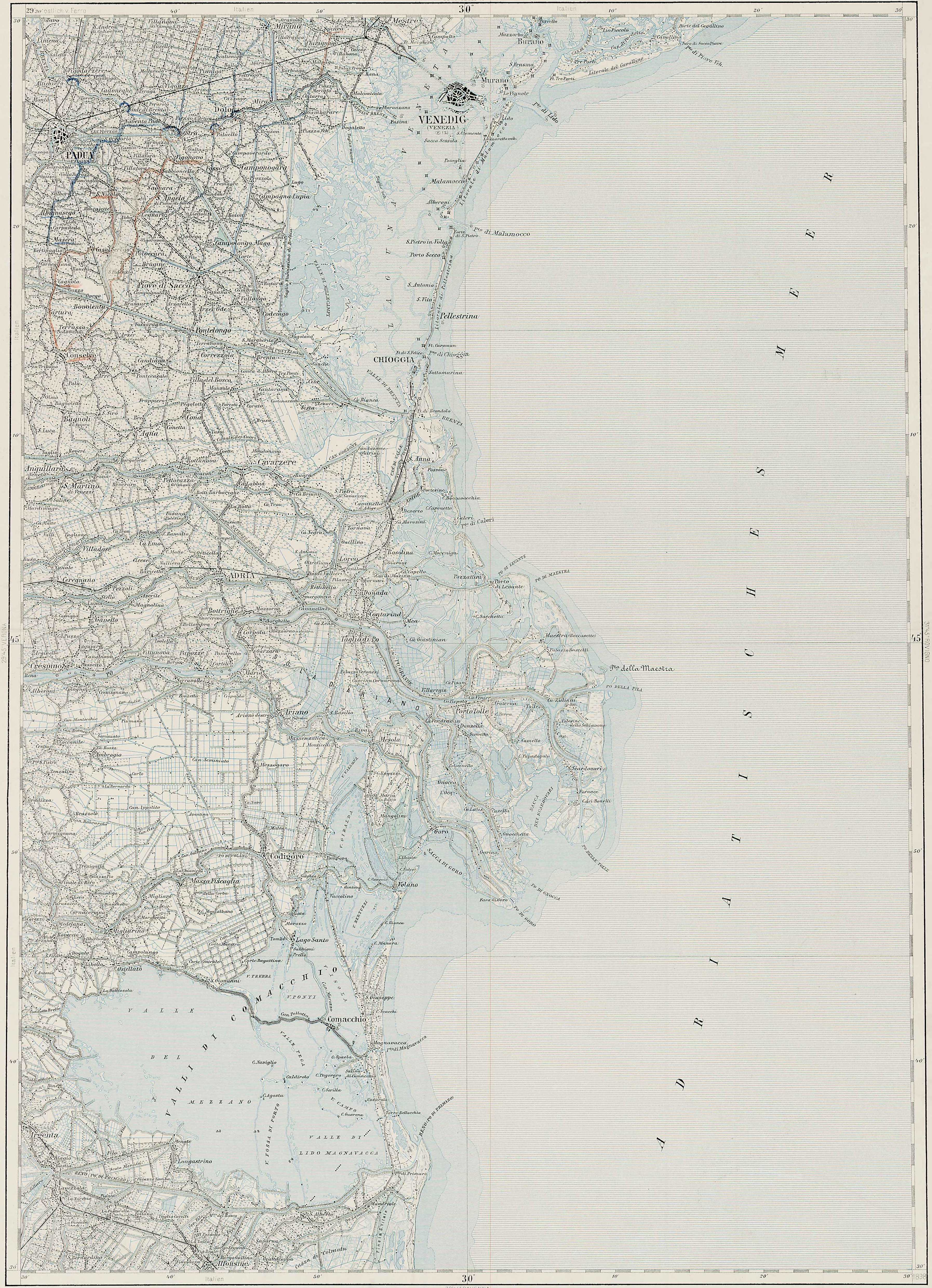 3rd Military Mapping Survey of Austria-Hungary - Velence